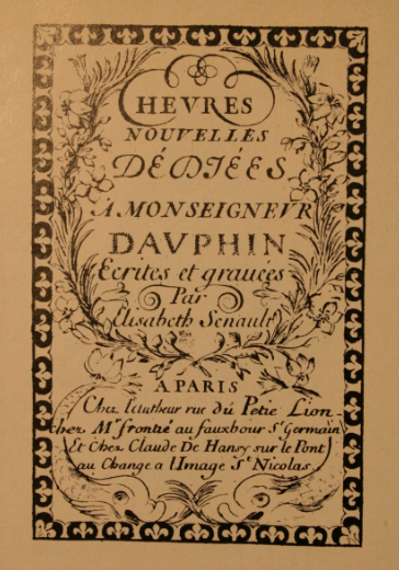 Elizabeth Senault, Heures nouvelles, c. 1710.